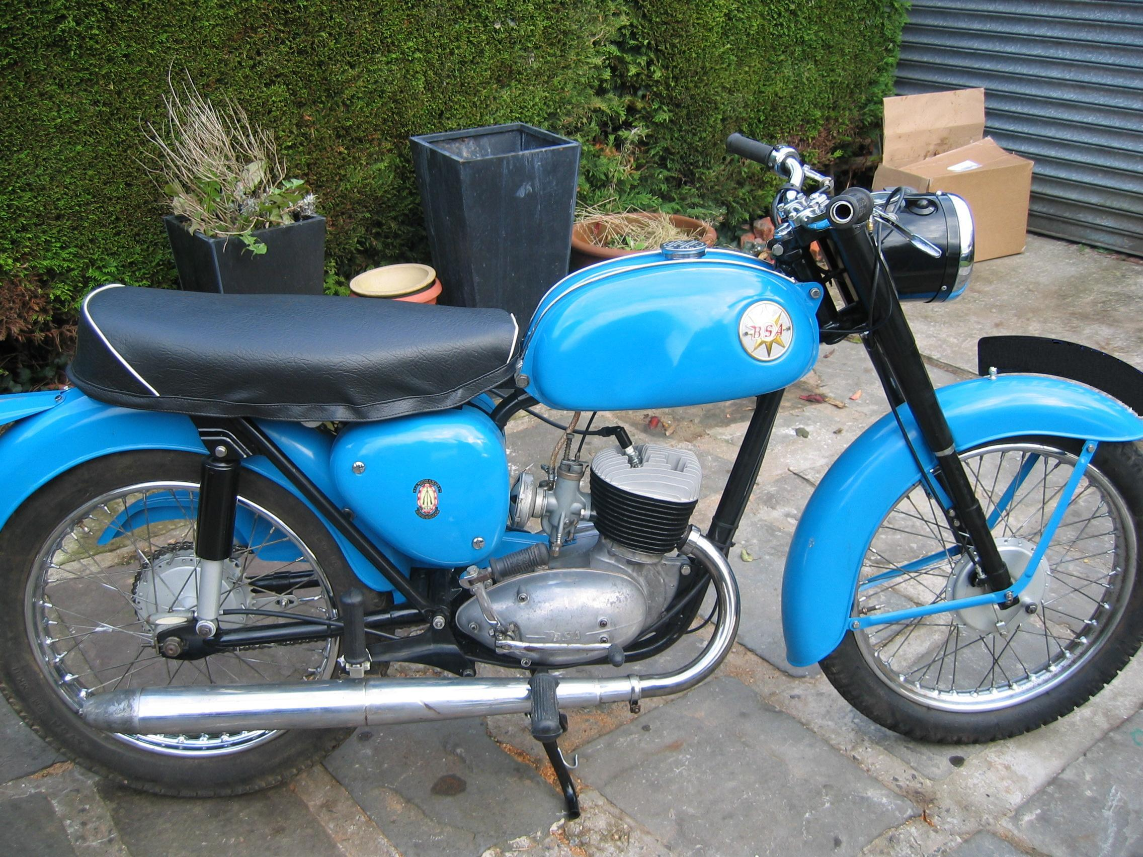 1966 BSA Bantam D7 Deluxe with a solid blue tank